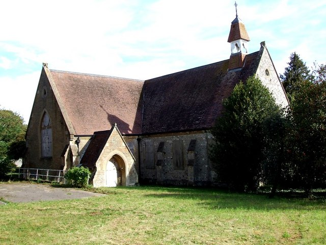 Former chapel at Stone, Buckinghamshire. This was the chapel of the former St John's psychiatric hospital. The hospital has been demolished and replaced by houses. The chapel is to be converted into three private homes.